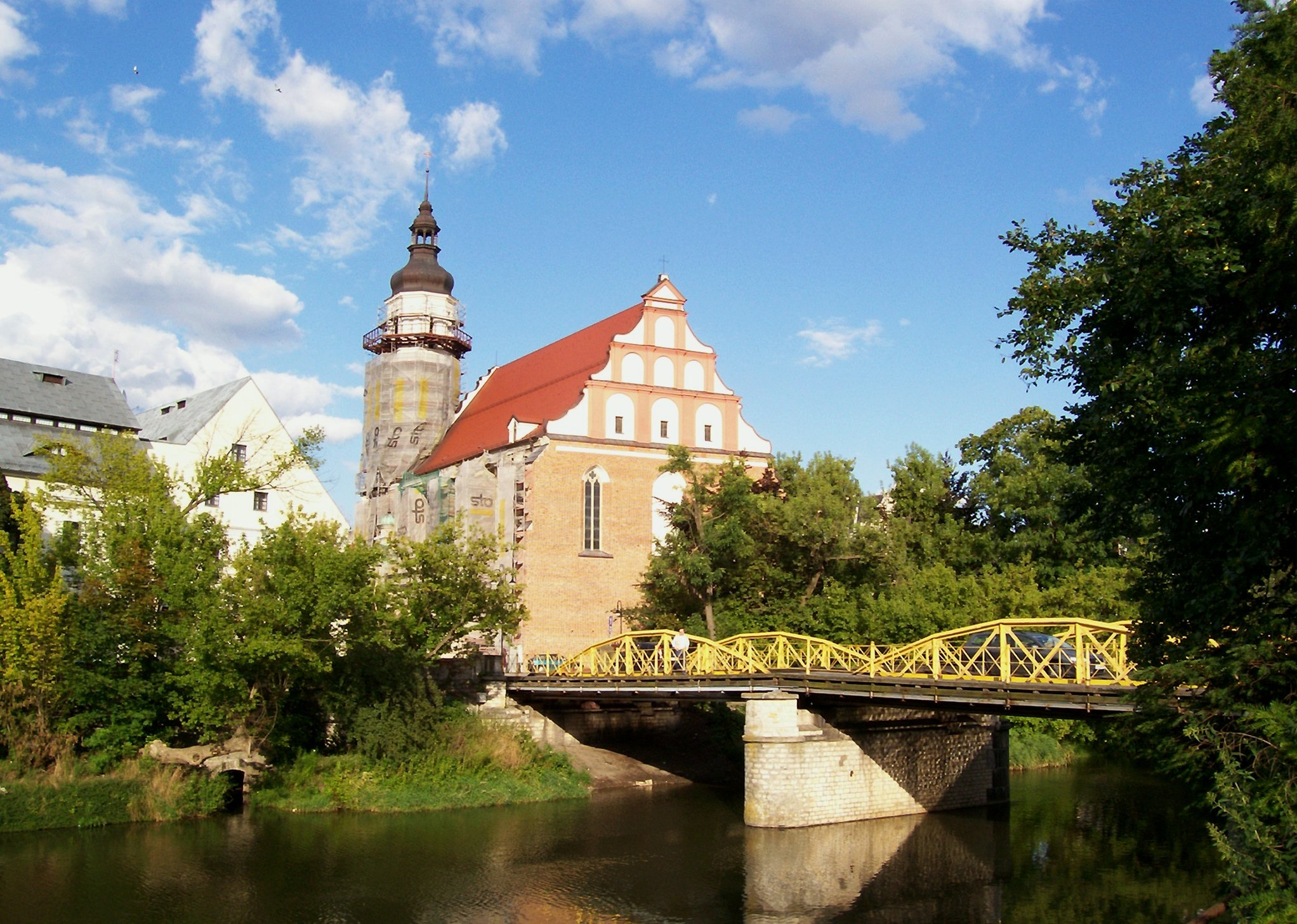 The church of Holy Trinity in Opole, Poland